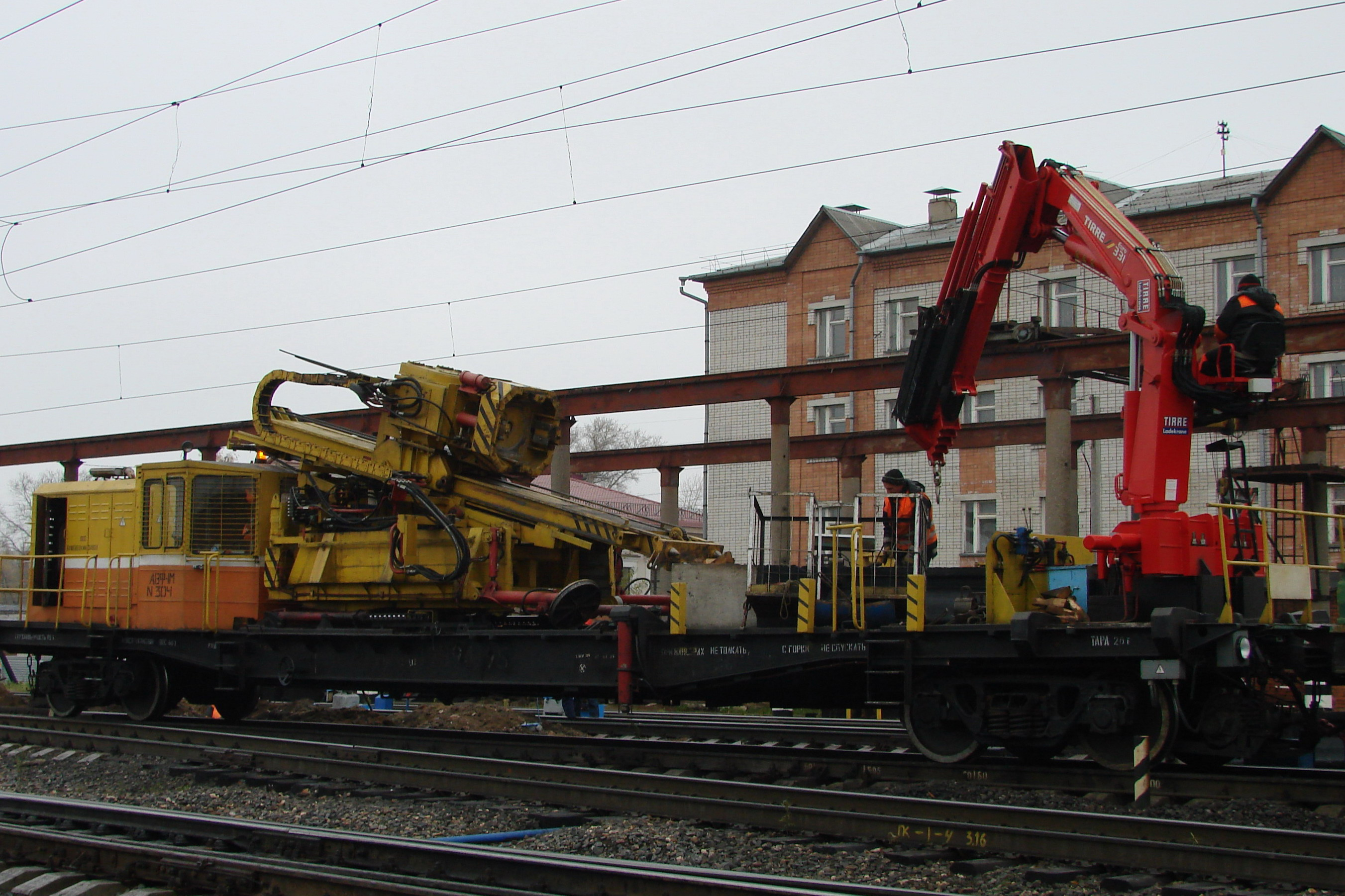 Russia, Vologda, vibration machine